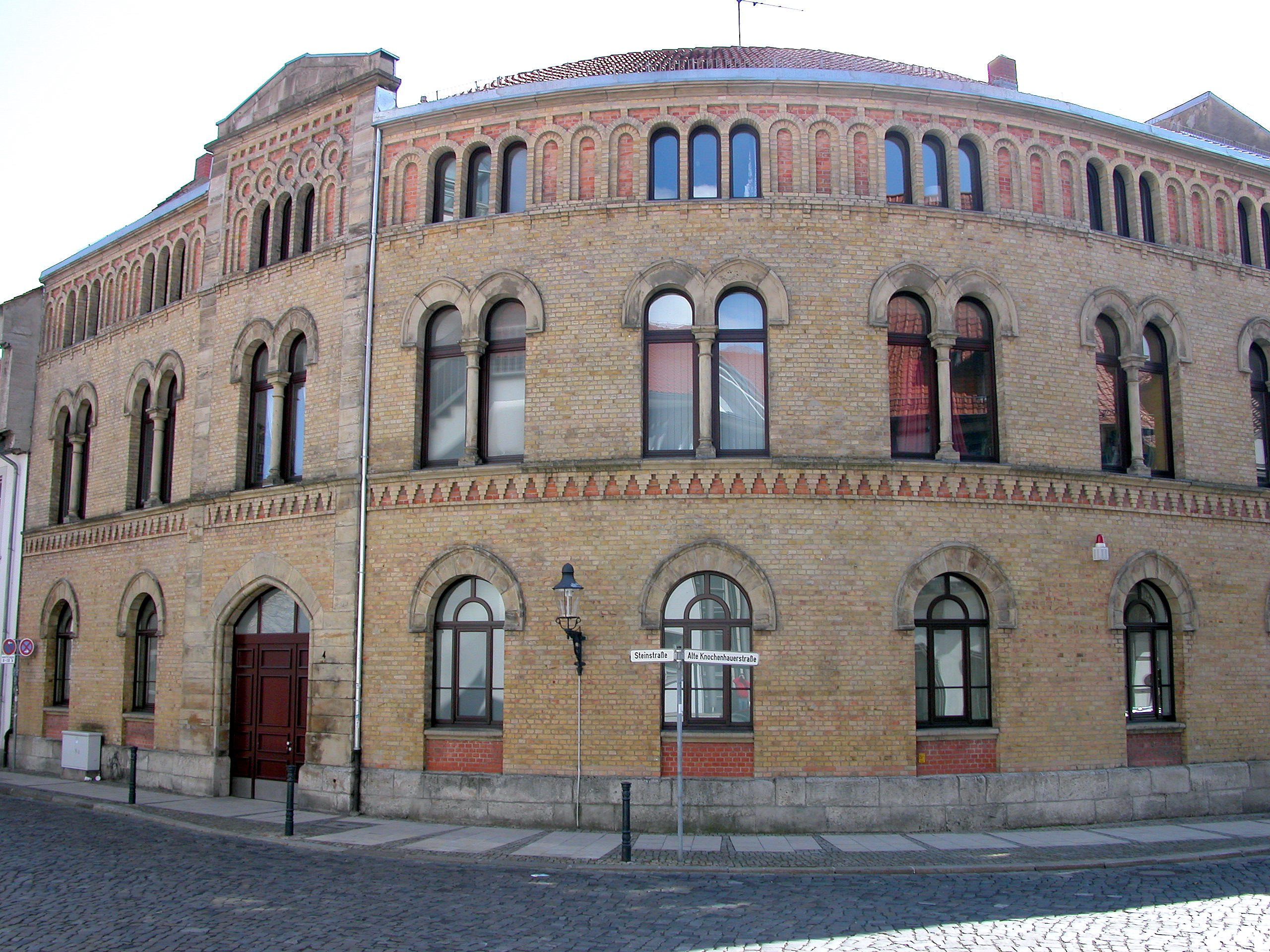 Braunschweig, Germany: Jewish Community Centre.